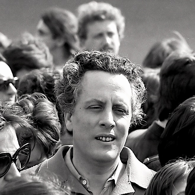 Italian poet Antonio Porta (Leo Paolazzi) in 1976, in Orvieto, Italy, at Meeting "Scrittura Lettura"